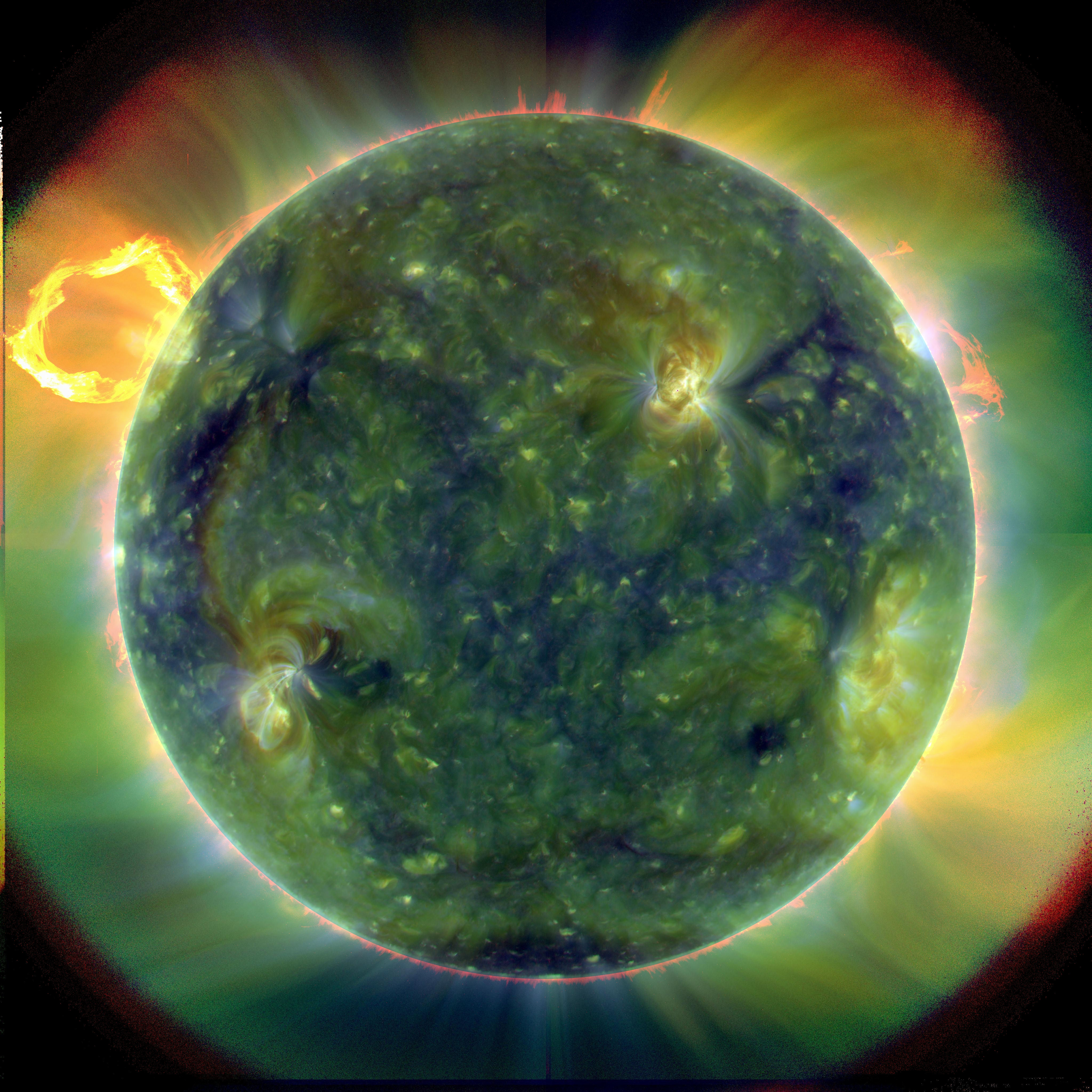 New images from Sun's surface by Solar Dynamics Observatory. A full-disk multiwavelength extreme ultraviolet image of the sun taken by SDO on March 30, 2010. False colors trace different gas temperatures. Reds are relatively cool (about 60,000 Kelvin or 108,000 Fahrenheit); blues and greens are hotter (greater than 1 million Kelvin or 1.8 million Fahrenheit).